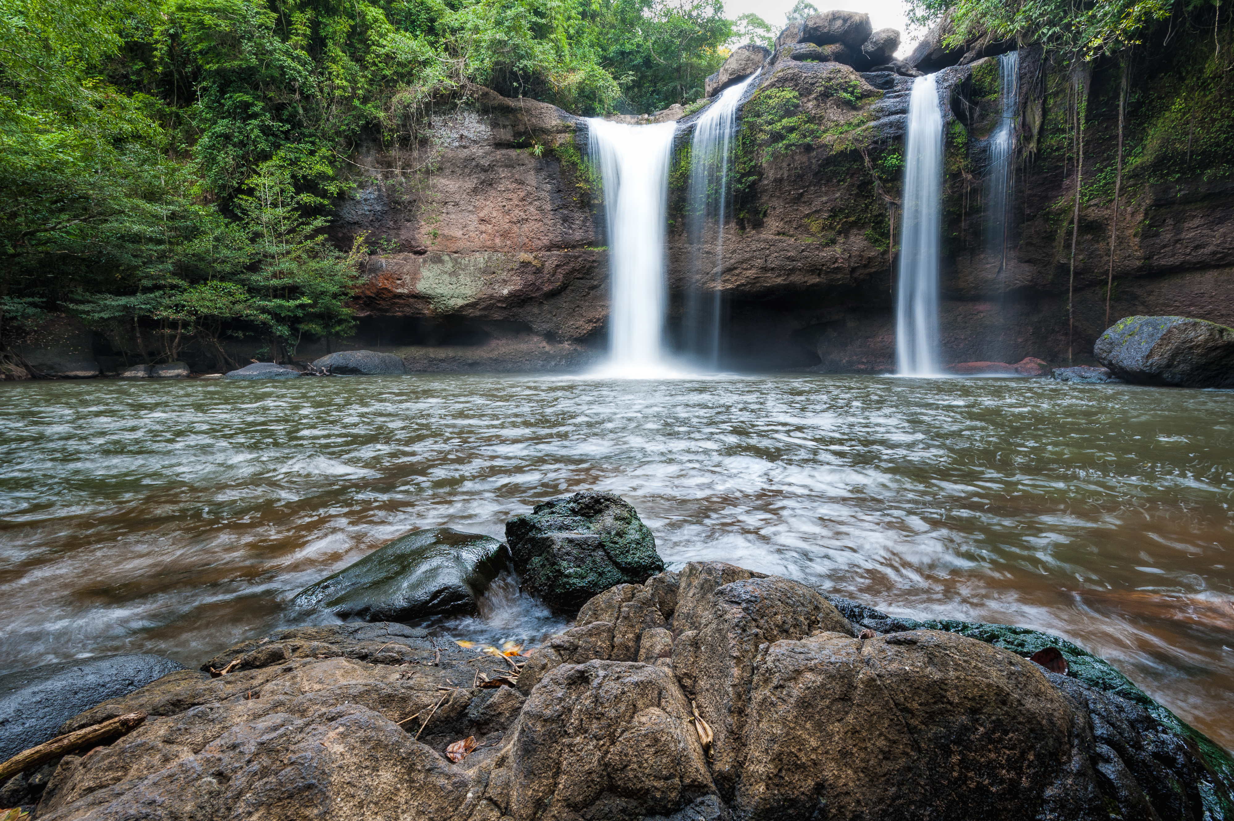 Heo Suwat Waterfall, Khao Yai National Park, Nakhon Ratchasima Province